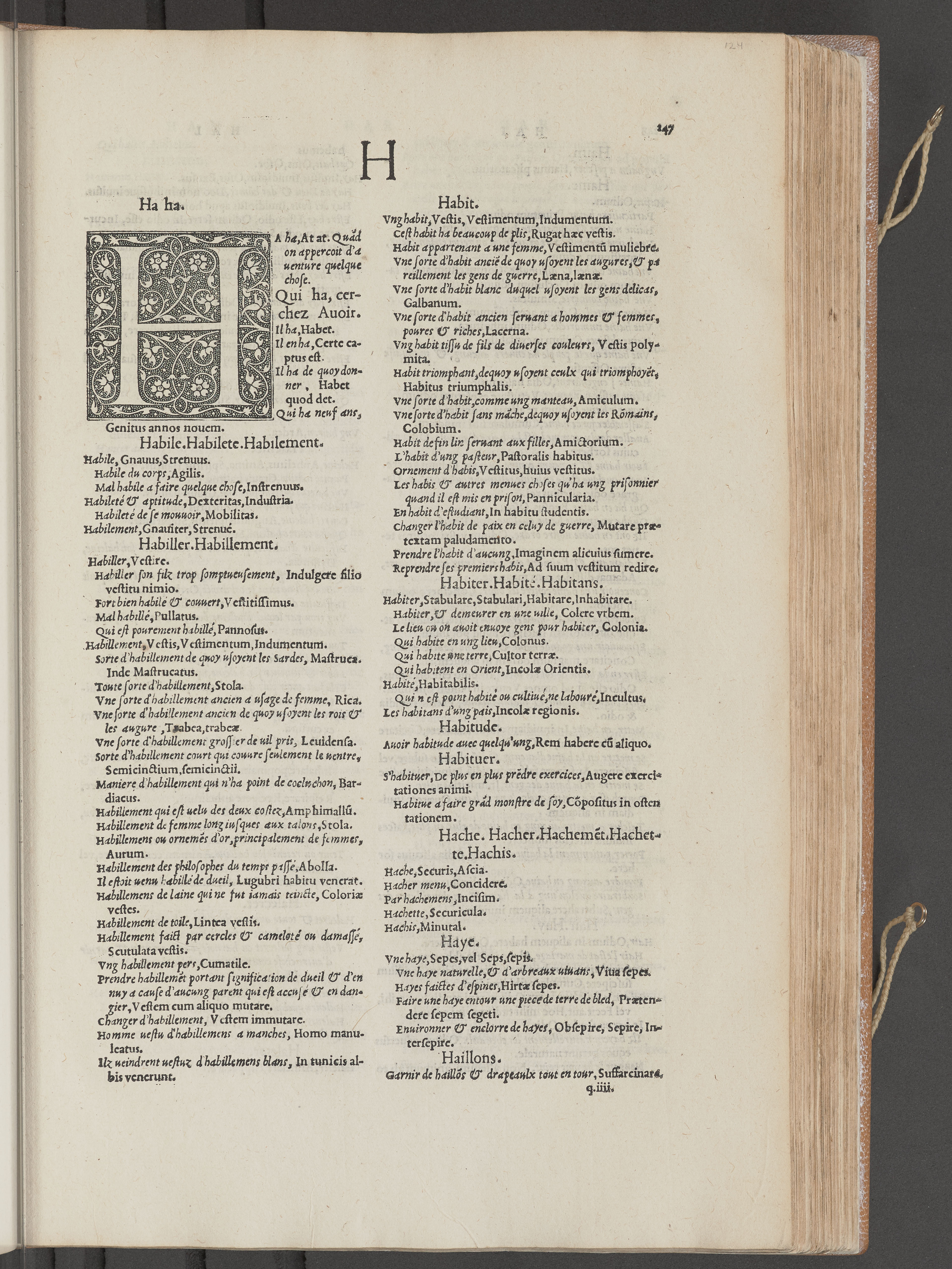 Page from Robert Estienne's 1549 Dictionaire françoislatin: Avtrement dict. Les mots François, auec les manieres dvser diceulx, tournez en Latin. Corrigé & augmenté.